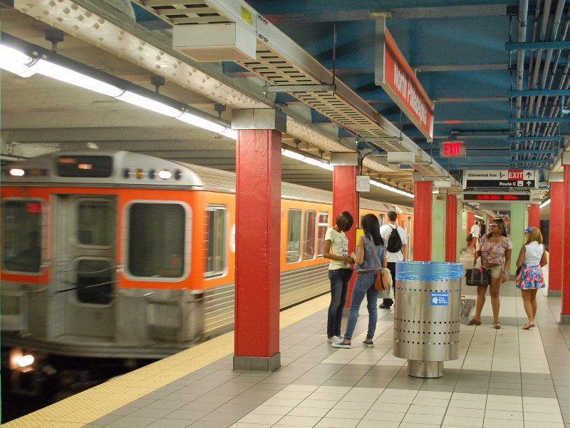 North Philadelphia SEPTA Broad Street Line Subway Station with southbound (AT&T-bound) train arriving on the local track seen on July 3, 2011.